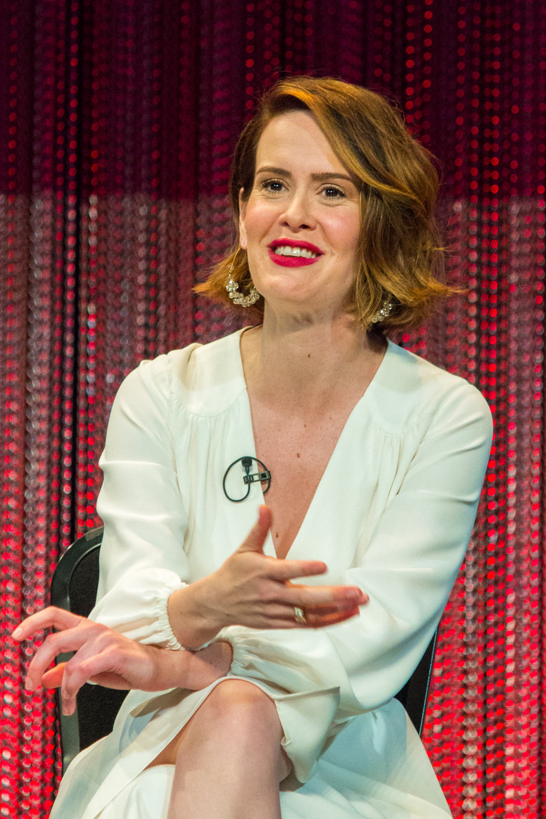 Sarah Paulson at PaleyFest 2014 for the TV show "American Horror Story: Coven"